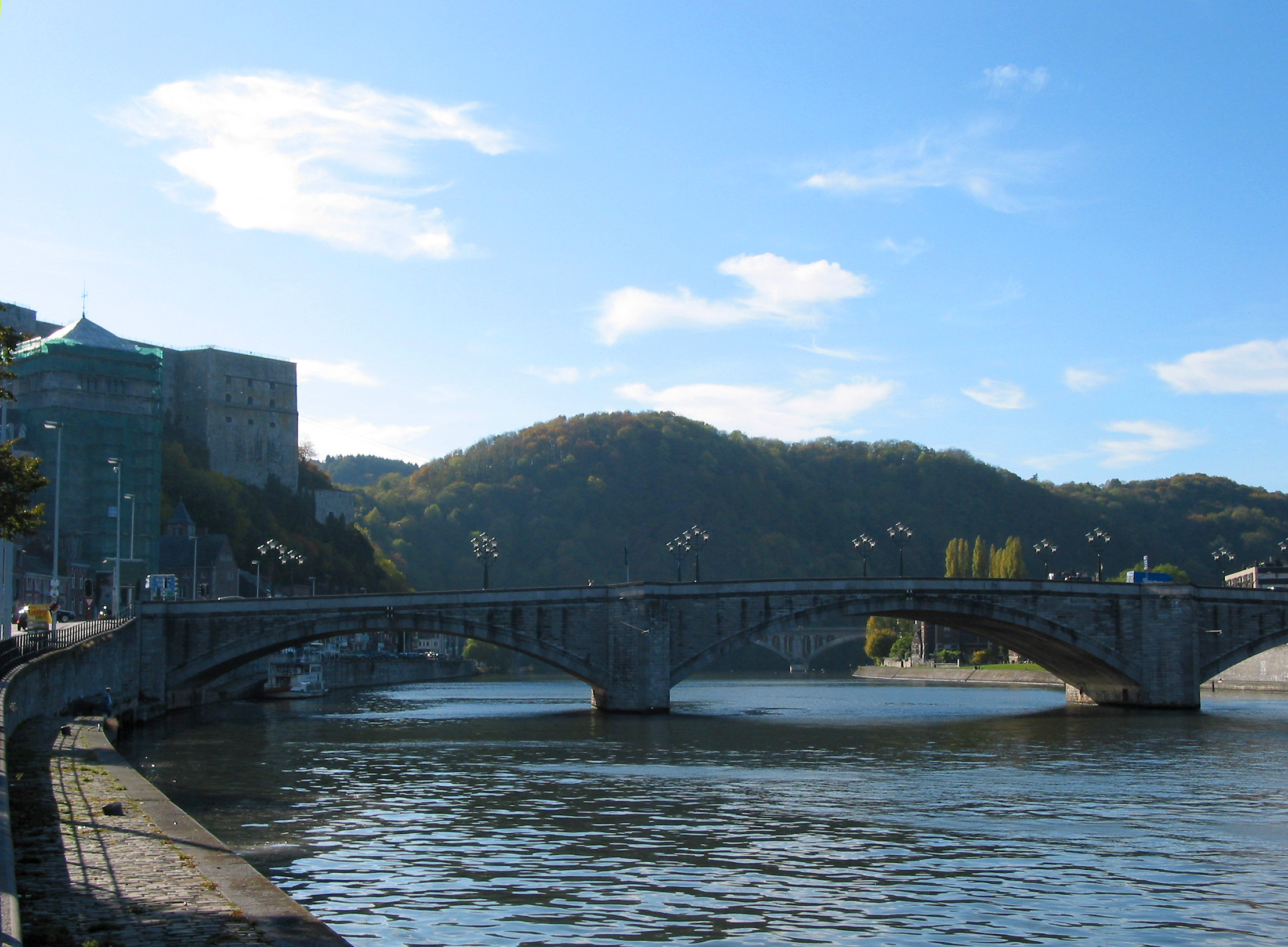 Huy (Belgium), bridge on the Meuse river (acurate reconstruction of the old bridge build in 1294 and better known under its walloon name "Li Pontia").